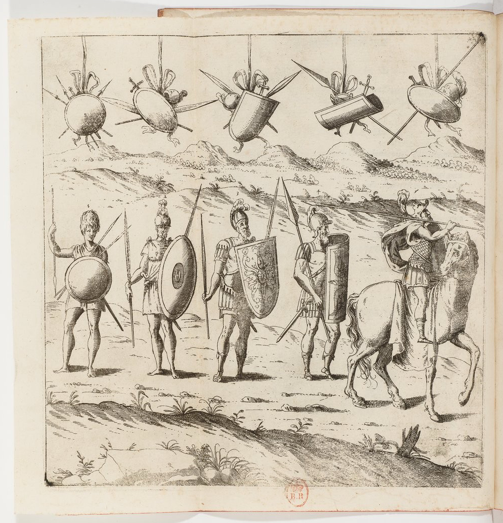 Roman legionaries and their weapons. Engraving in the Patrizi’s treatise La militia romana di Polibio, di Tito Livio, e di Dionigi Alicarnaseo by Franciscus Patricius /Franjo Petriš, Francesco Patrizi/ published at Ferrara.